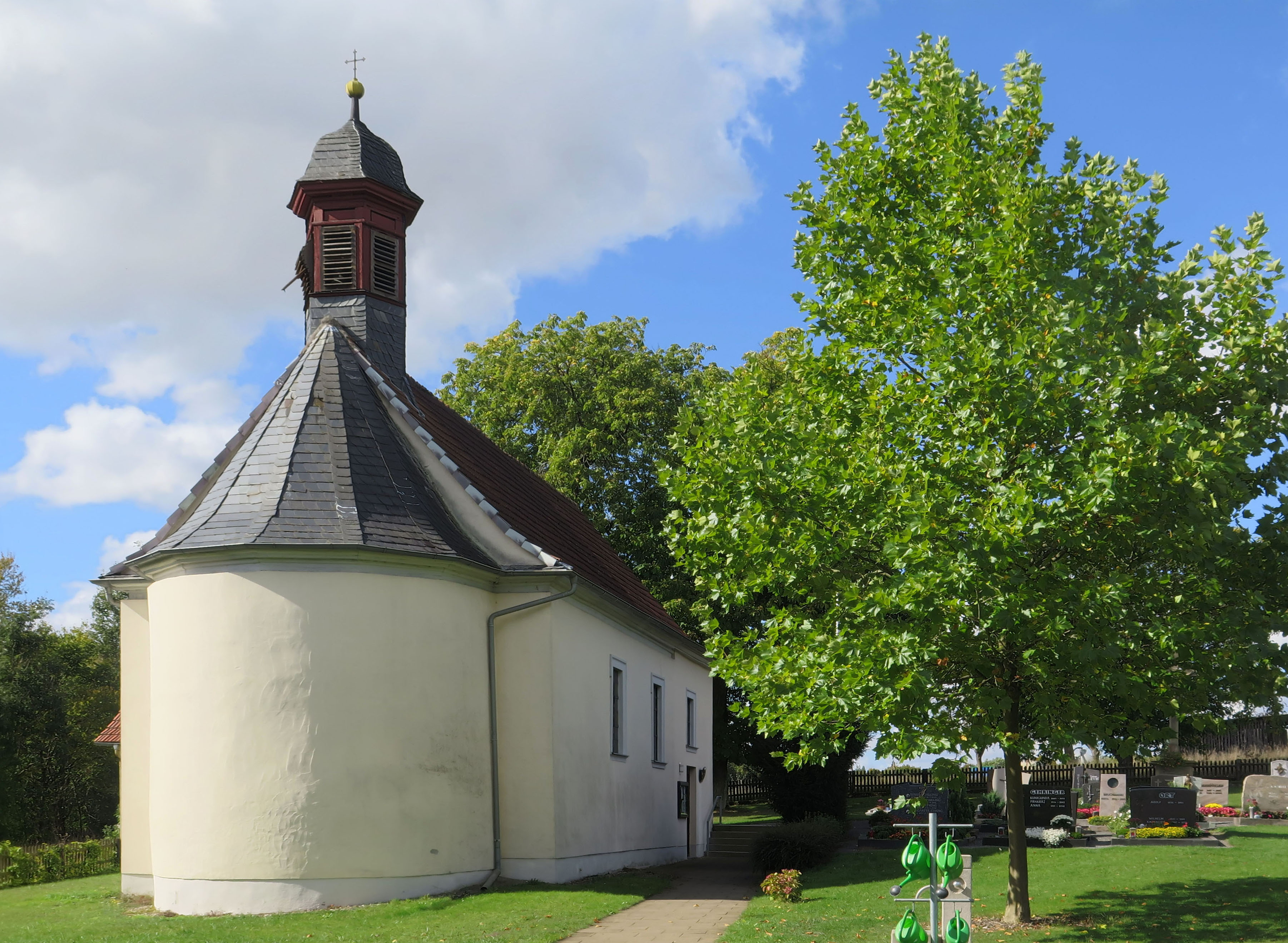 Catholic succursal church Saint Lawrence, ca. 1600This is a photograph of an architectural monument.